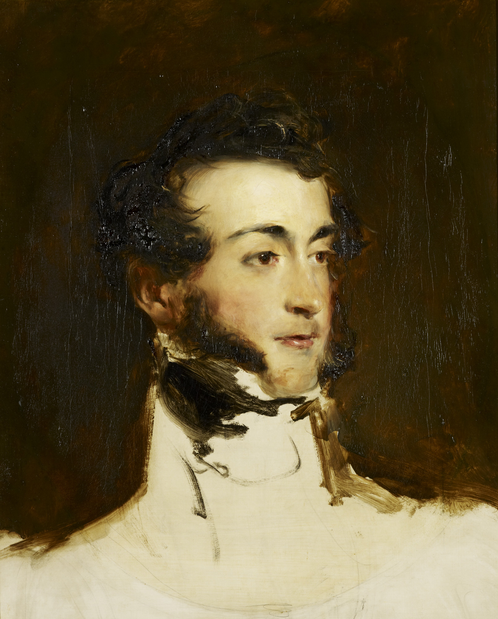 Charles, 3rd Prince of Leiningen